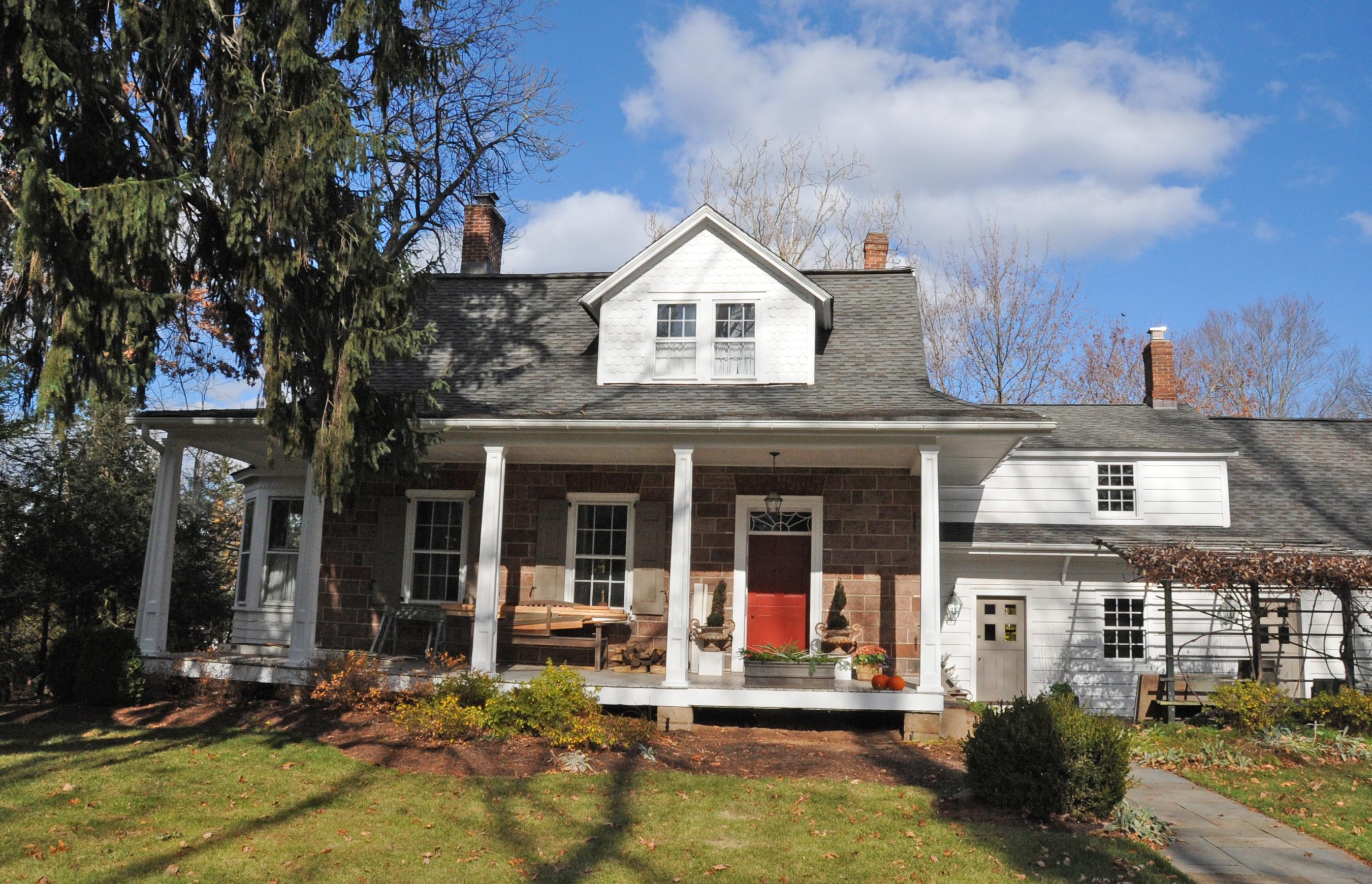 BUILT CIRCA 1811 IN DUTCH COLONIAL STYLE ON PART OF THE ESTATE OF HIS FATHER, JOHN DURIE. GARRET DURIE WAS A FARMER AND HIS HIER OCCUPIED THIS HOUSE UNTIL 1946.